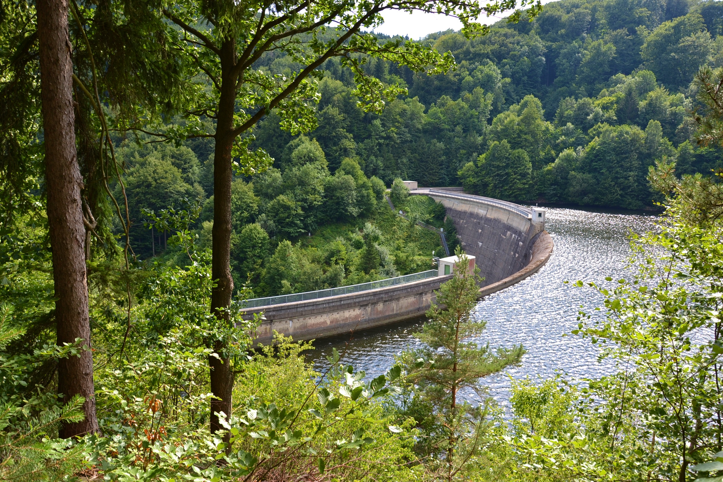 Wall of the hydro power plant Dobra, Lower Austria